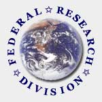 FRD logo